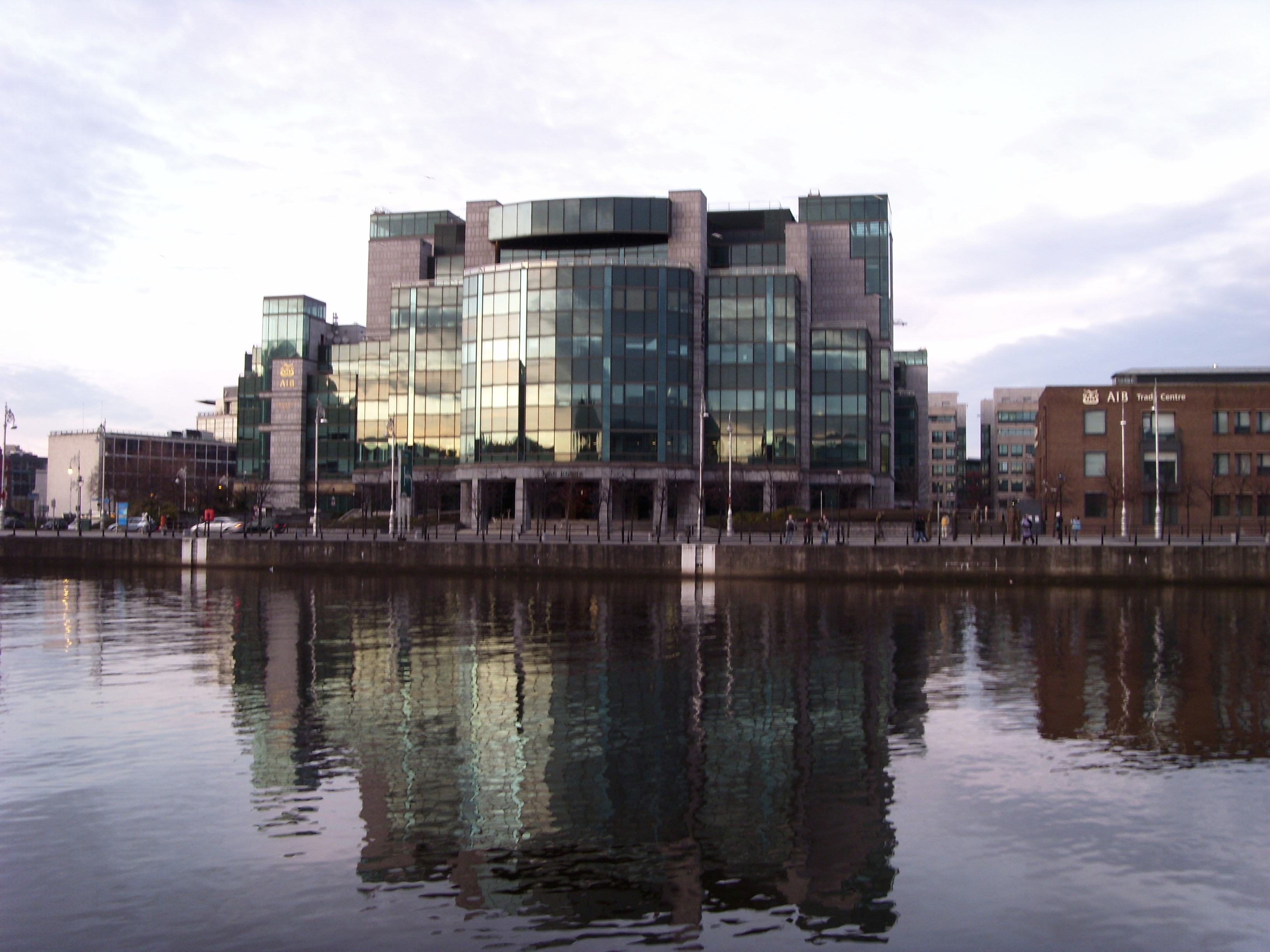 Photo of AIB International Finance Centre in Dublin docklands